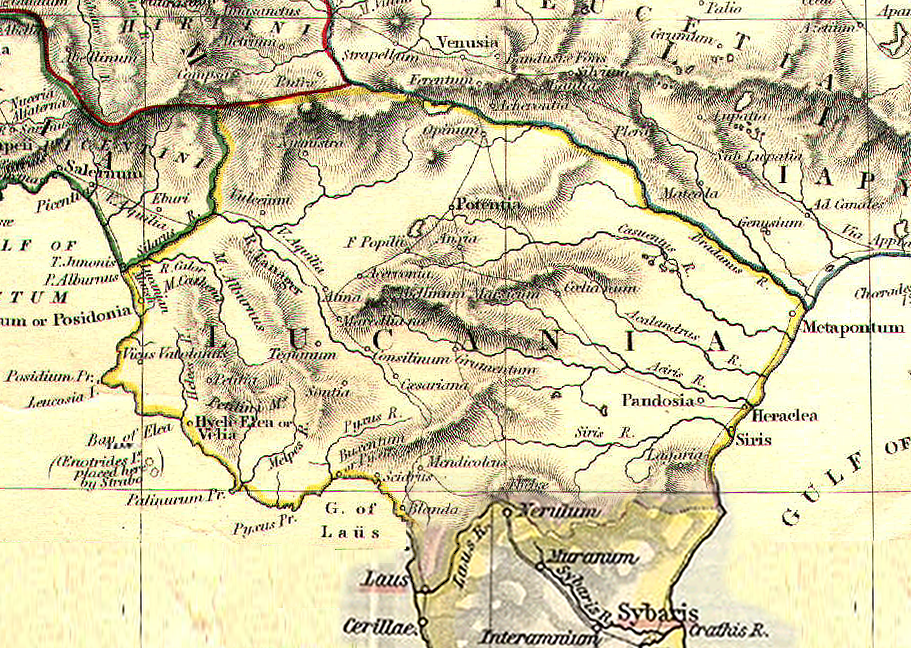 Reference map for Roman Lucania from The Historical Atlas by William R. Shepherd, 1911 (Some particular of the soutern part of the map elaborated for integration)